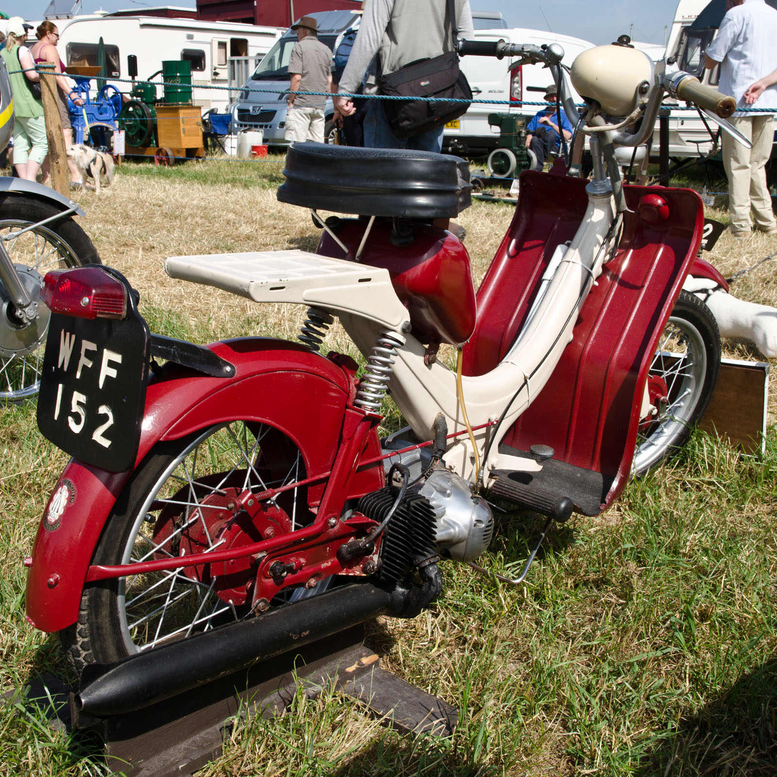 Cheshire Steam Fair 14/07/2013